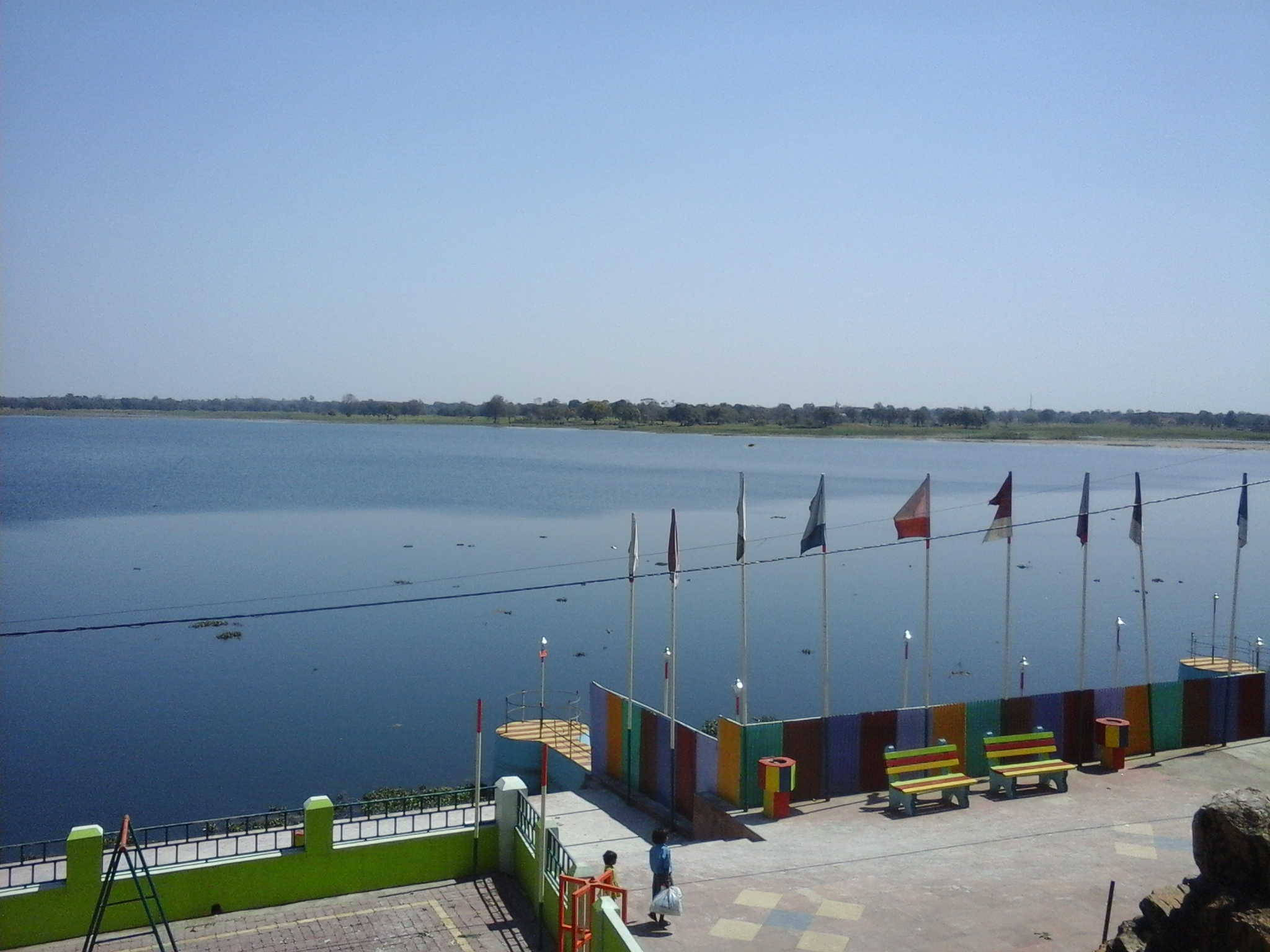 The picture of the boat club in Talbehat(U.P.) was taken from the upper side from my own camera while visiting the fort on 16th March, 2014.